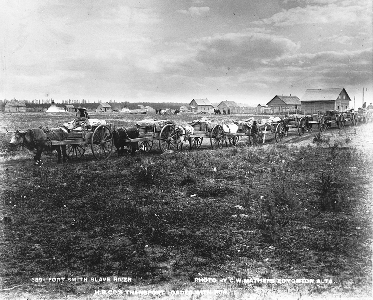 Hudson Bay Co's Transport loaded with fur, Fort Smith, Slave River, Northwest Territories, Canada, about 1900